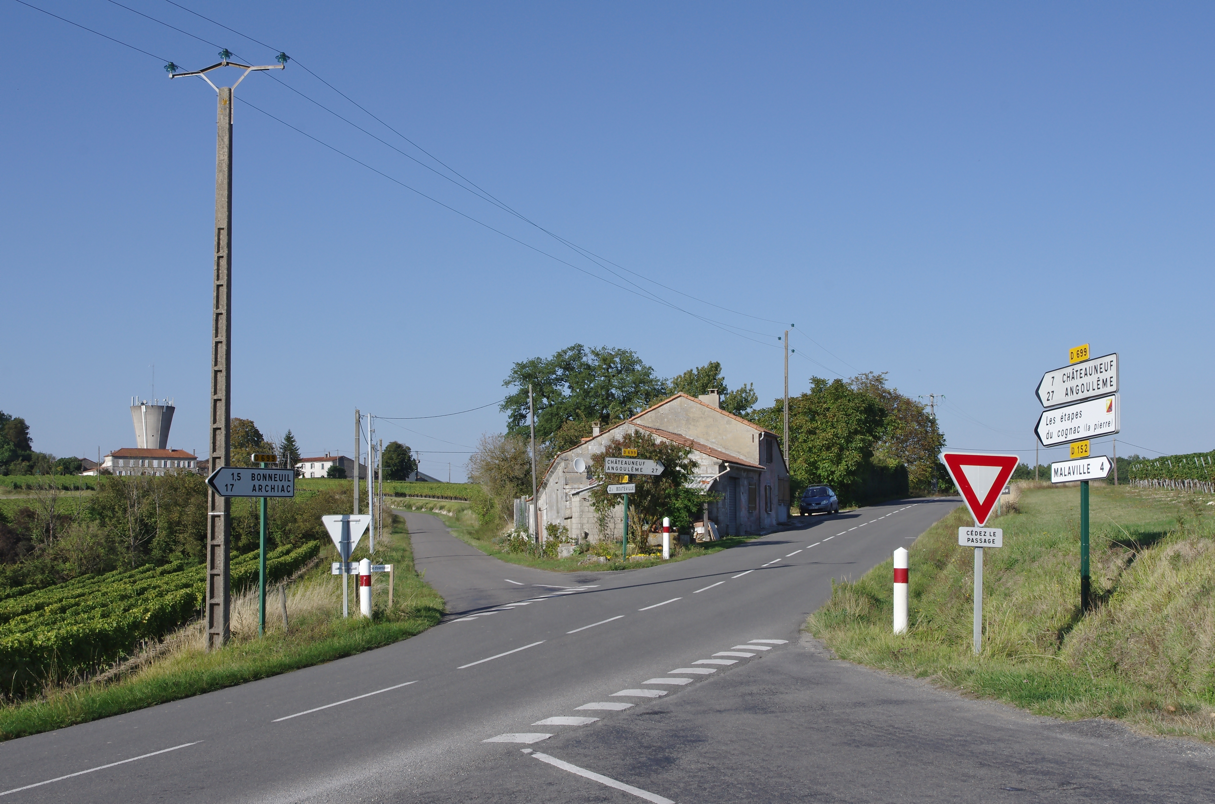 Crossroad in Grande Champagne, Charente, France.